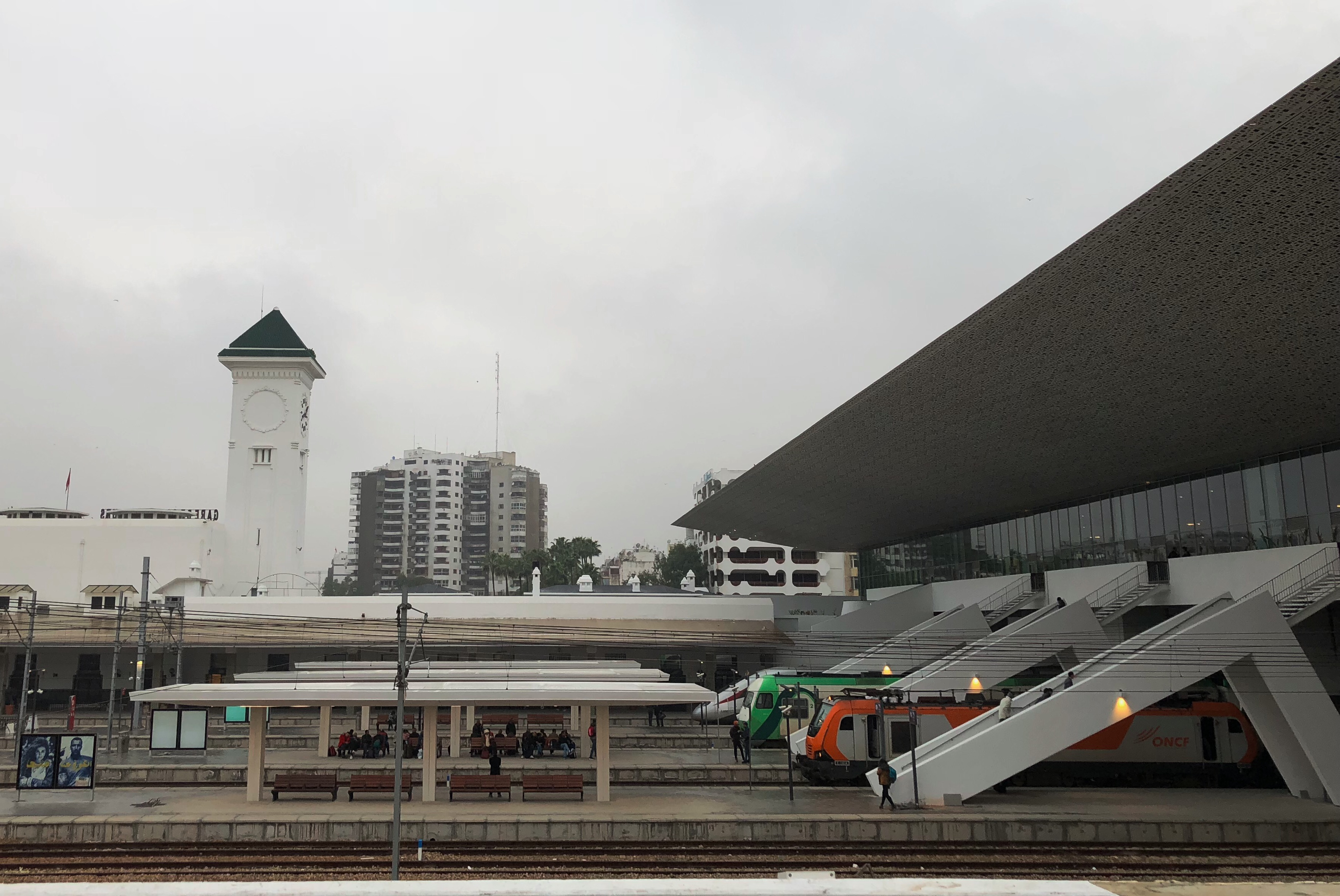 New additional building at Casa Voyageurs train station in Casablanca, Morocco